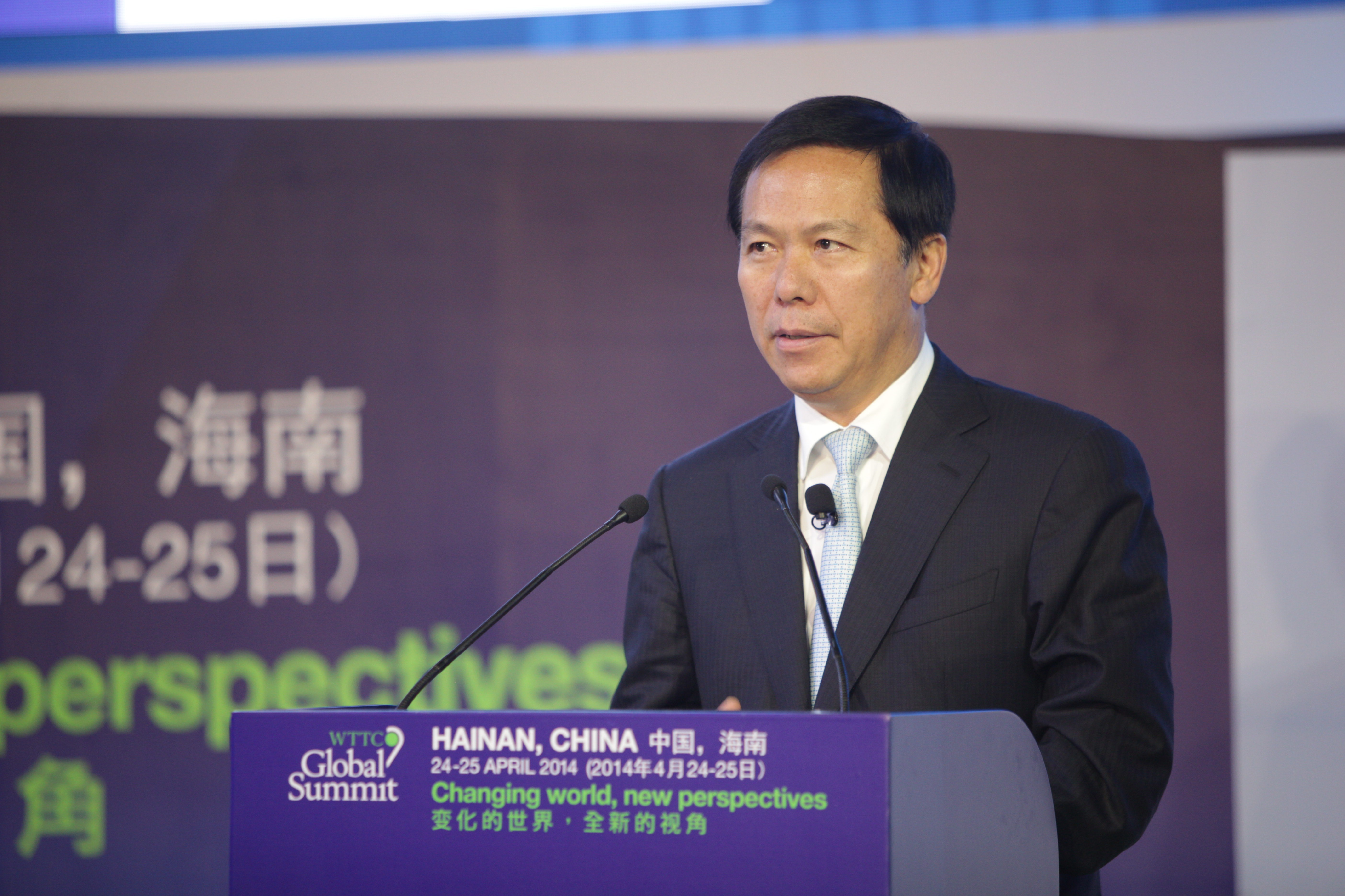 LIU Shaoyong, Chairman China Eastern Airlines Corporation Ltd. World Travel & Tourism Council Flickr images